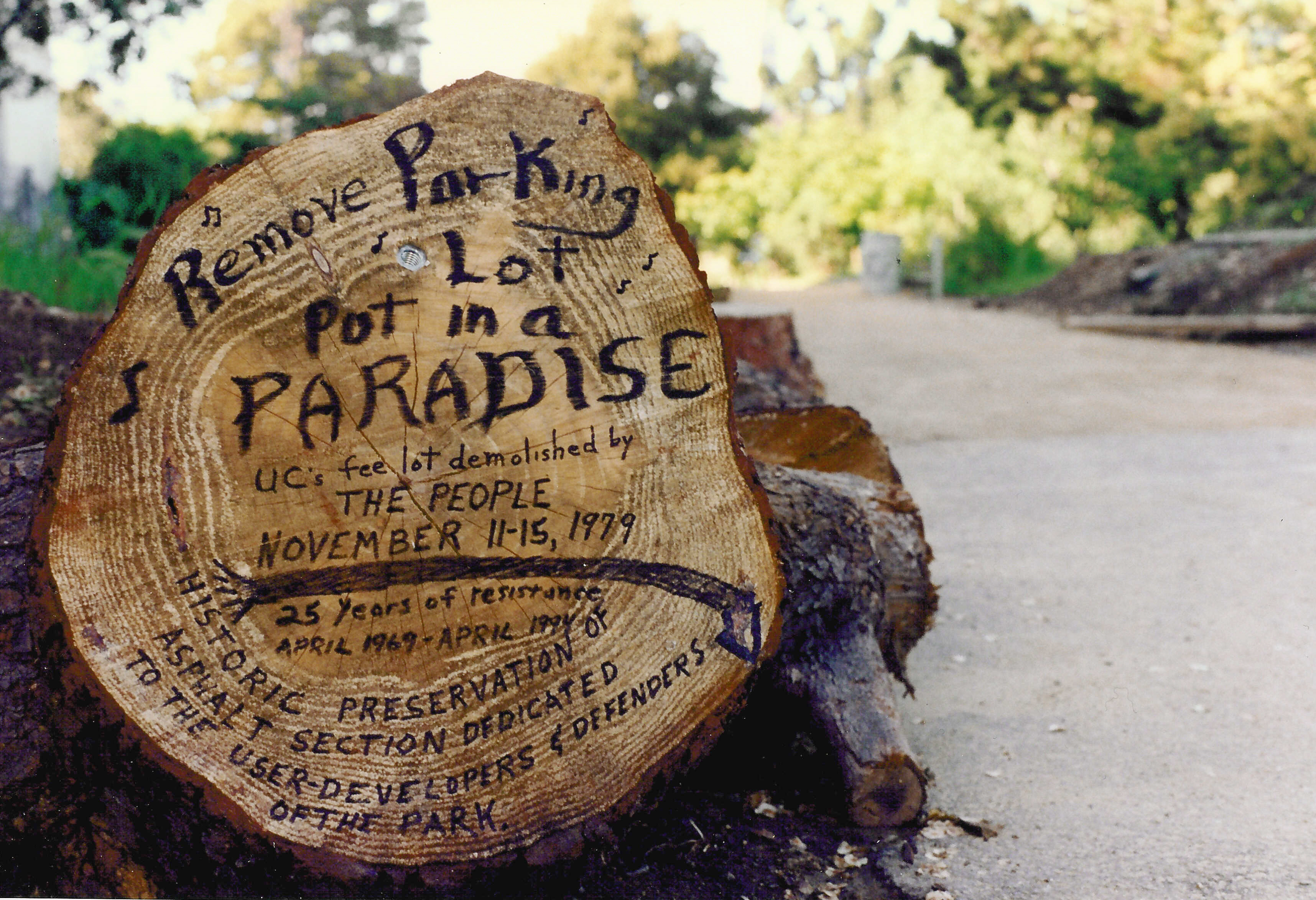 Unofficial monument to 25 years of People's Park, Berkeley, California